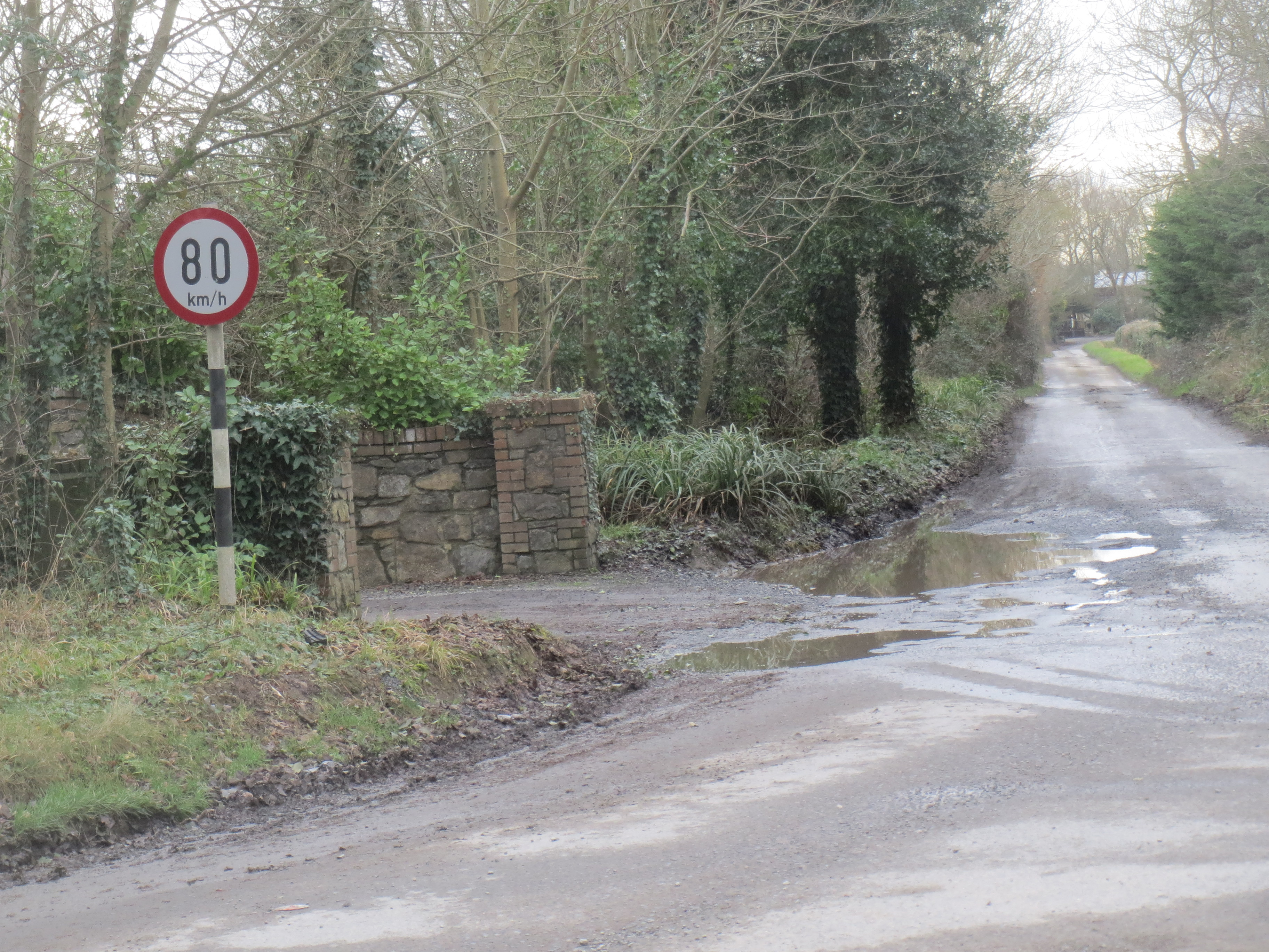 Minor Road with speedlimit 80 km/h